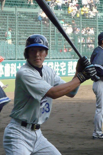 Takayuki Kajitani, infielder of the Yokohama BayStars, at Hanshin Koshien Stadium.